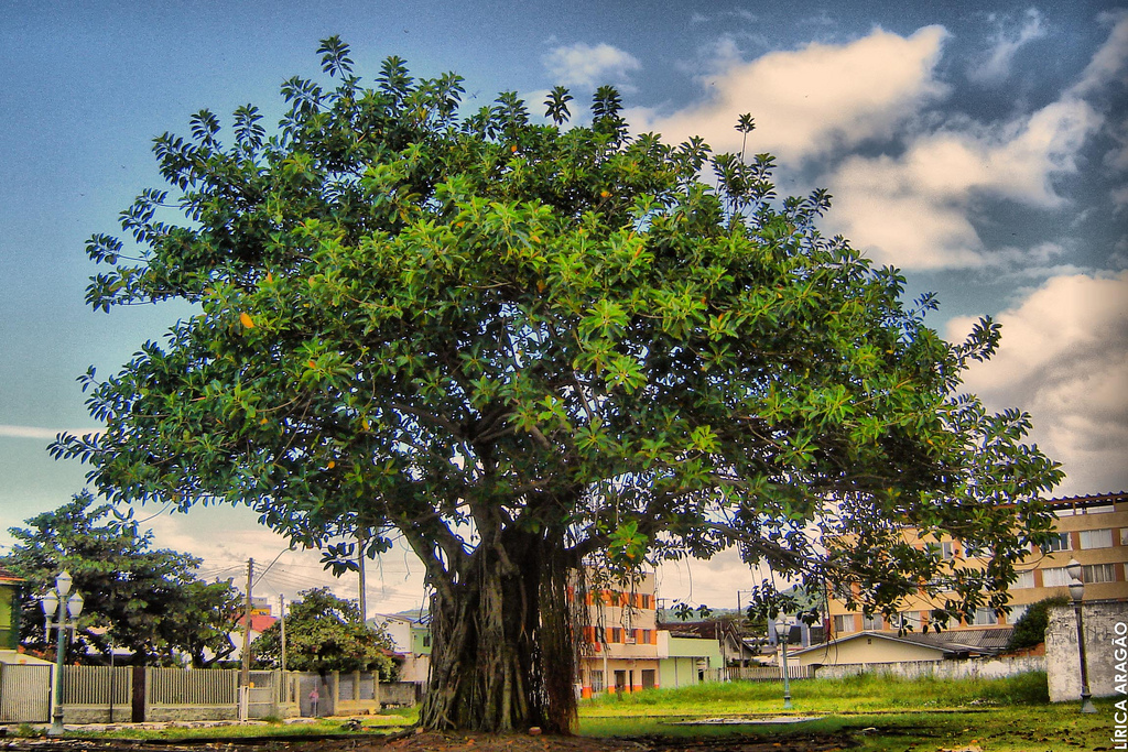 Centennial tree in Matinhos, Paraná, Brazil.